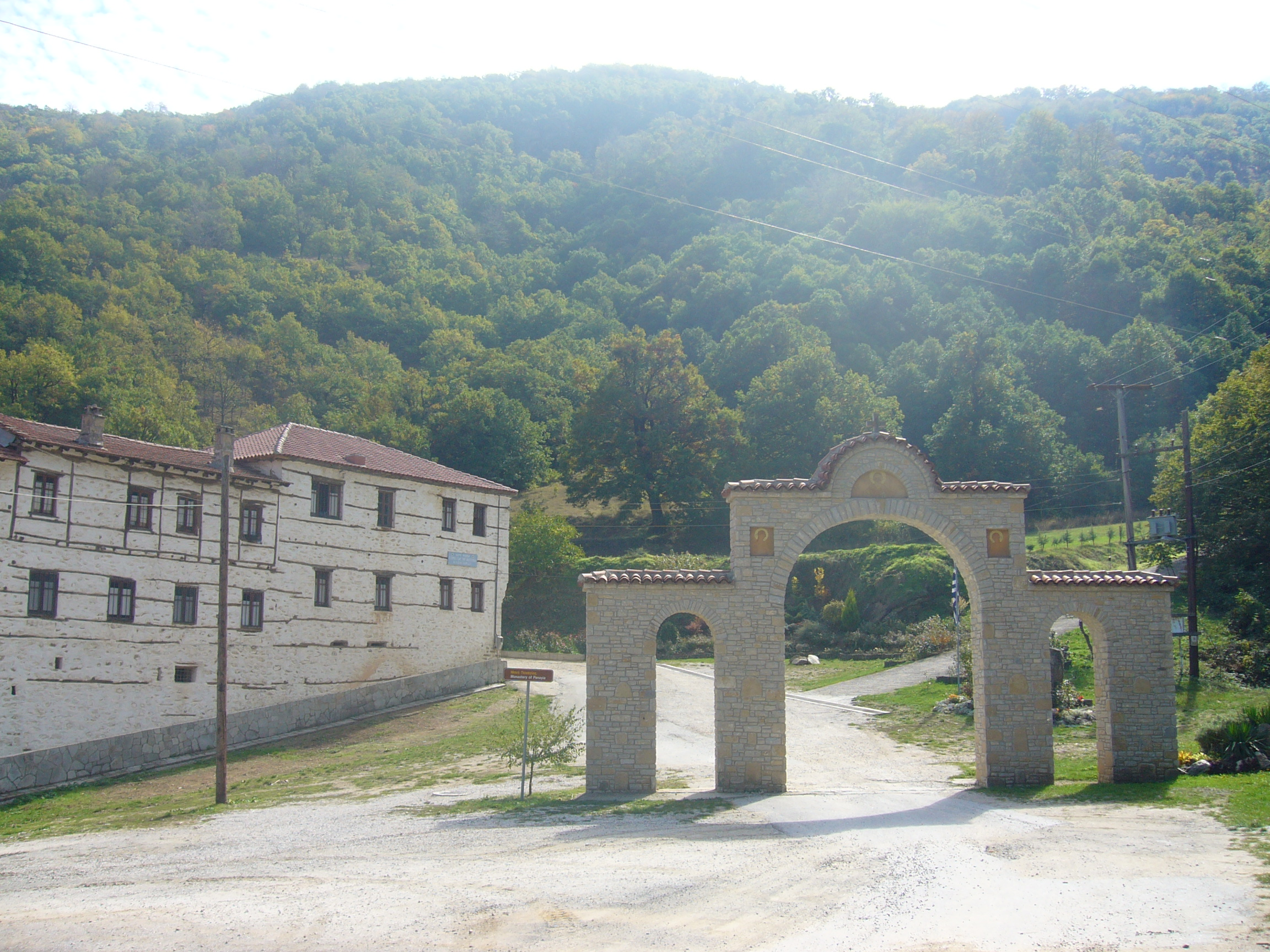 Kleisoura monastery, Kastroria prefecture, Greece.